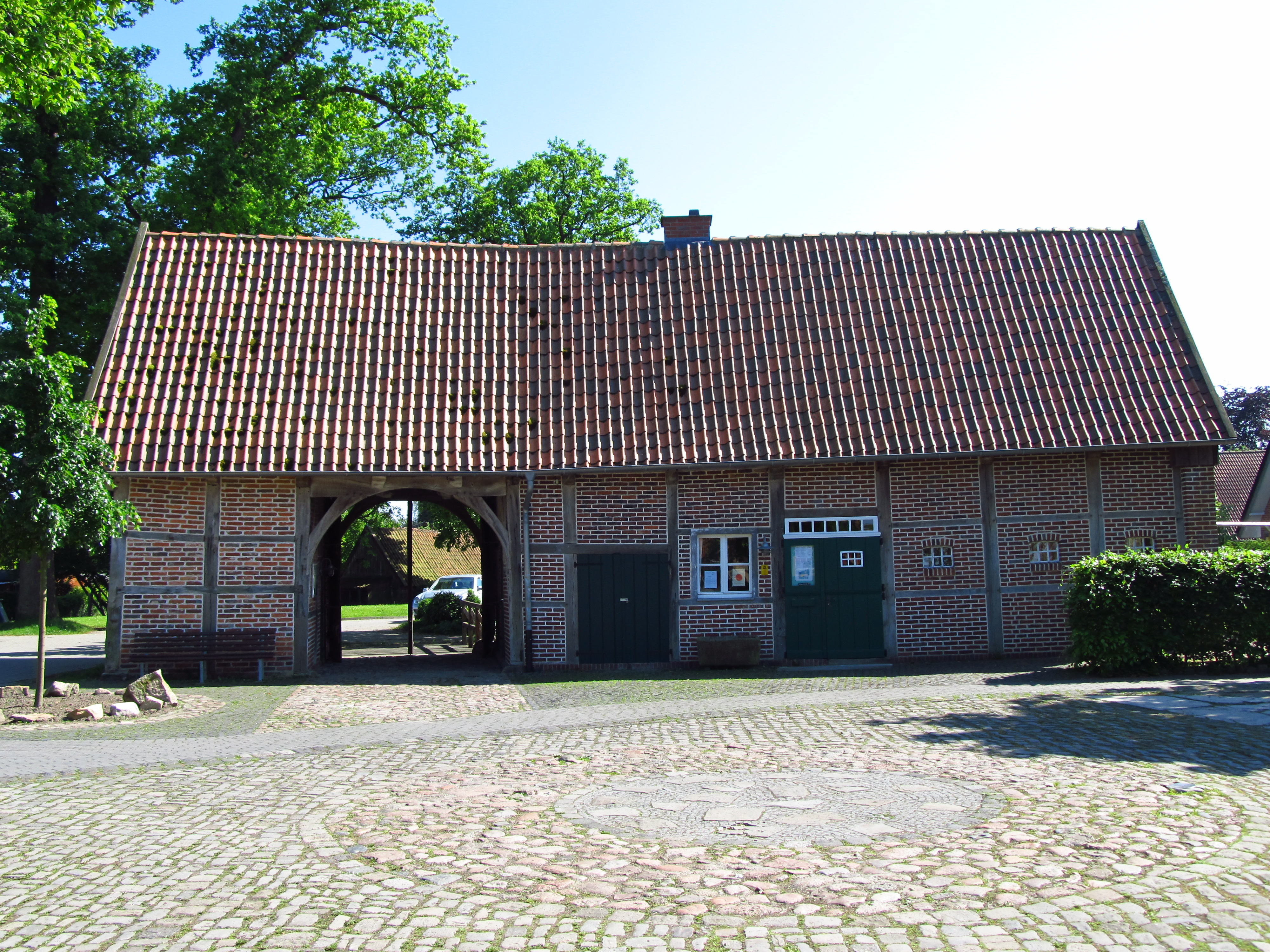 Photo of the refurbished gatehouse of "Haus Holtwick".